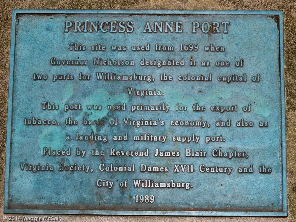 Plaque marking location of Princess Anne Port in colonial Williamsburg, at current College Landing Park, near the confluence of College and Paper Mill Creeks, Williamsburg, Virginia. 1070 South Henry Street, Williamsburg, Virginia. Transcription: PRINCESS ANNE PORT This site was used from 1699 when Governor Nicholson designated it as one of two ports for Williamsburg, the colonial capital of Virginia. This port was used primarily for the export of tobacco, the basis of Virginia's economy, and also as a landing and military supply port. Placed by the Reverend James Blair Chapter, Virginia Society, Colonial Dames XVII Century and the City of Williamsburg. 1989.